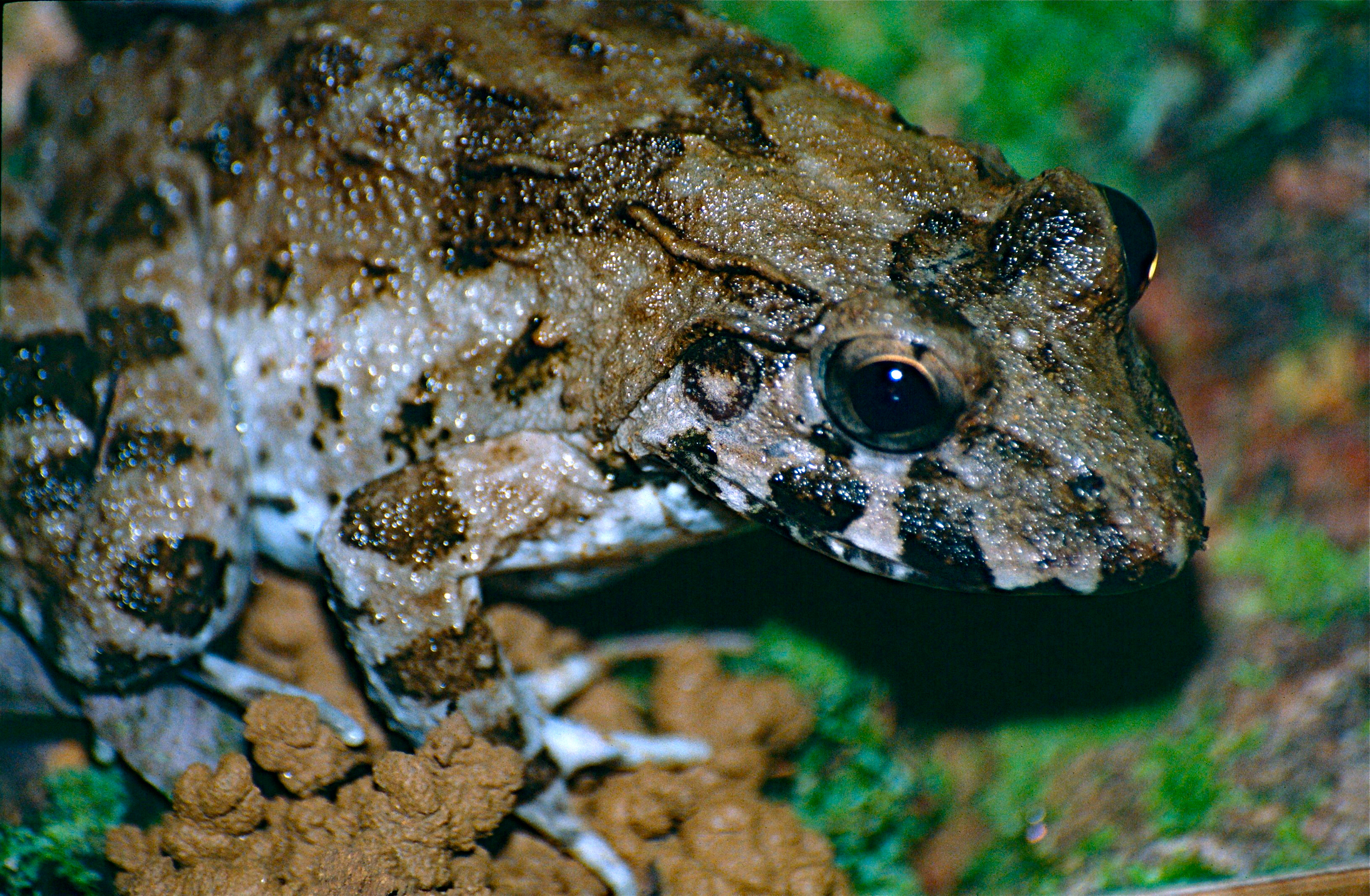 Bako NP, Sarawak, MALAYSIA Scanned slide from 2001